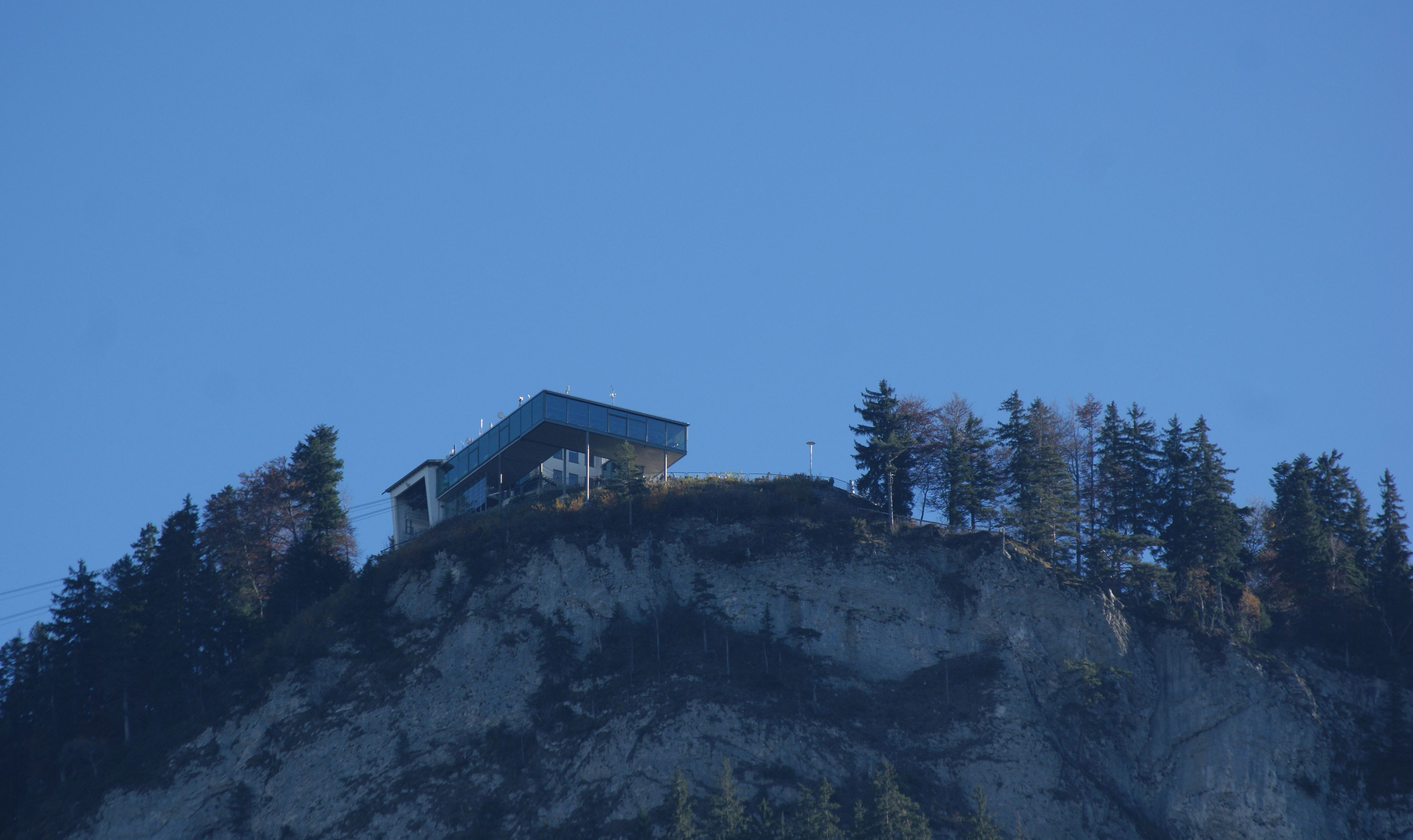 Aerial tramway "Karren", Mountain station in Dornbirn, Vorarlberg, Austria.